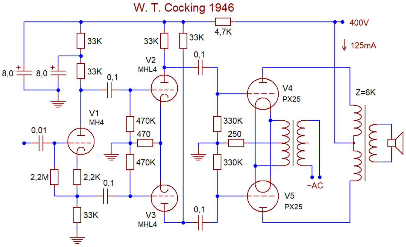 The ultimate 1946 version of the Wireless World Quality Amplifier by W. T. Cocking. 12-Watt version with PX25 DHTs